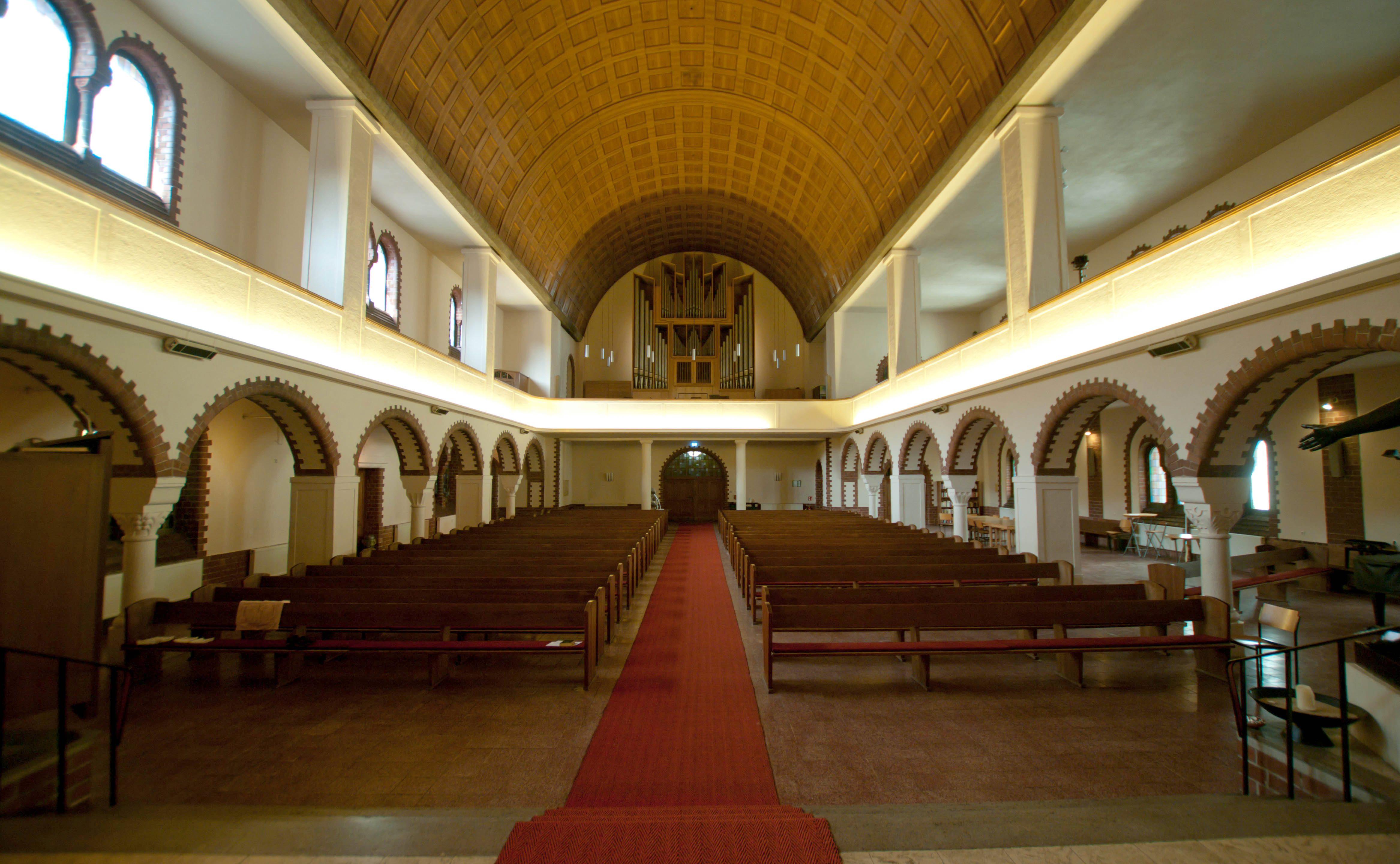 Innenraum der Kapernaumkiche, Berlin-Wedding